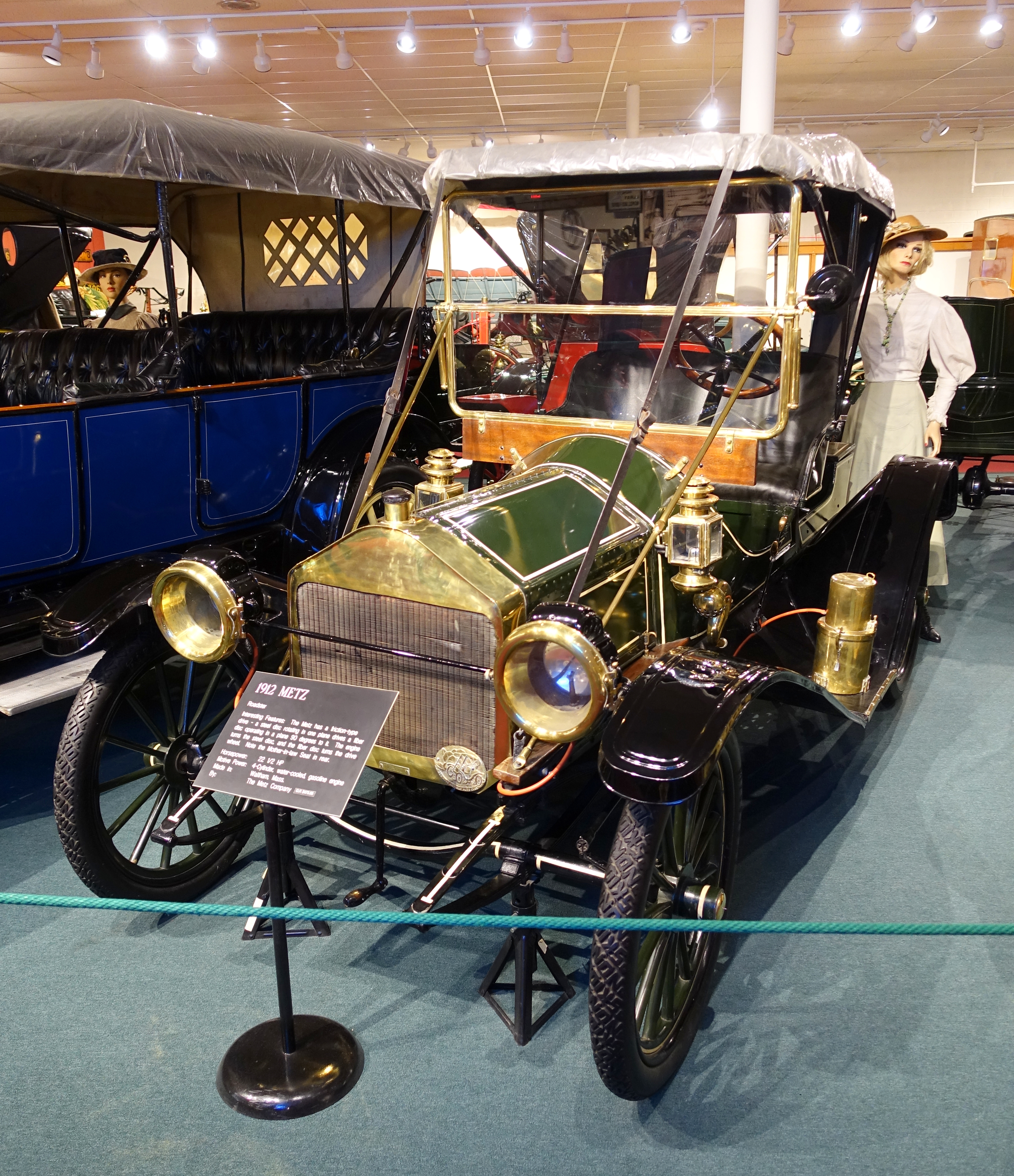 1912 Metz Model 22 roadster, available either assembled or as Metz Plan car for building it do-it-yourself, delivered in crates following instalments. Metz roadster, 1912, made by the Metz Co., Waltham, Massachusetts, 22.5 HP, 4 cylinder, gasoline engine - Luray Caverns Car and Carriage Museum - Luray, Virginia, USA.